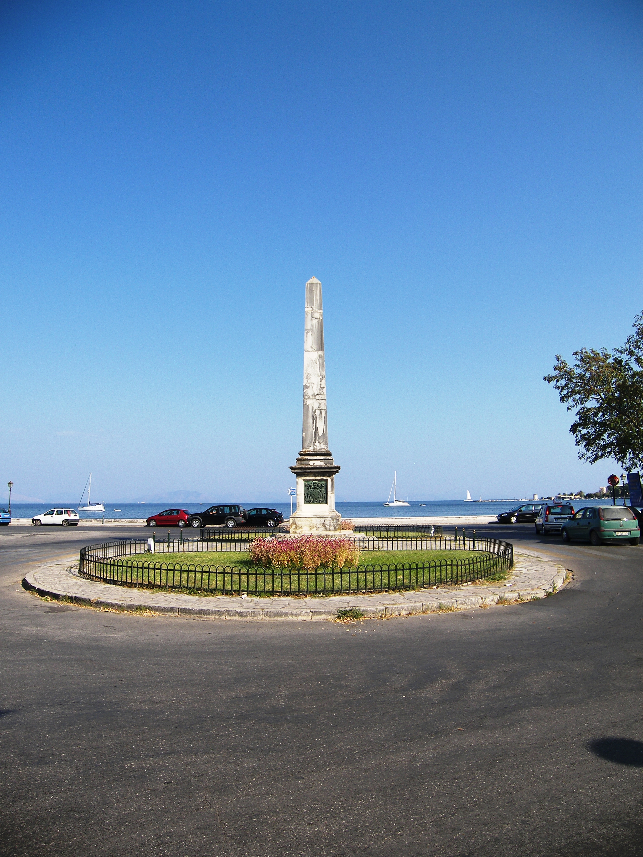 Please see filename